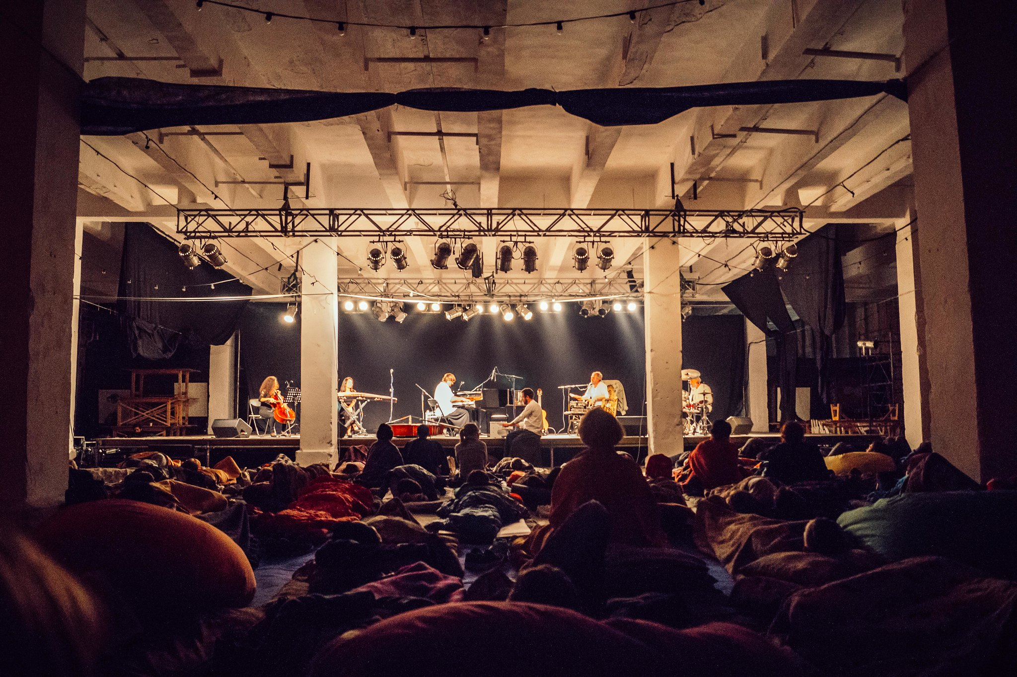 Dream-opera neprOsti, Panorama